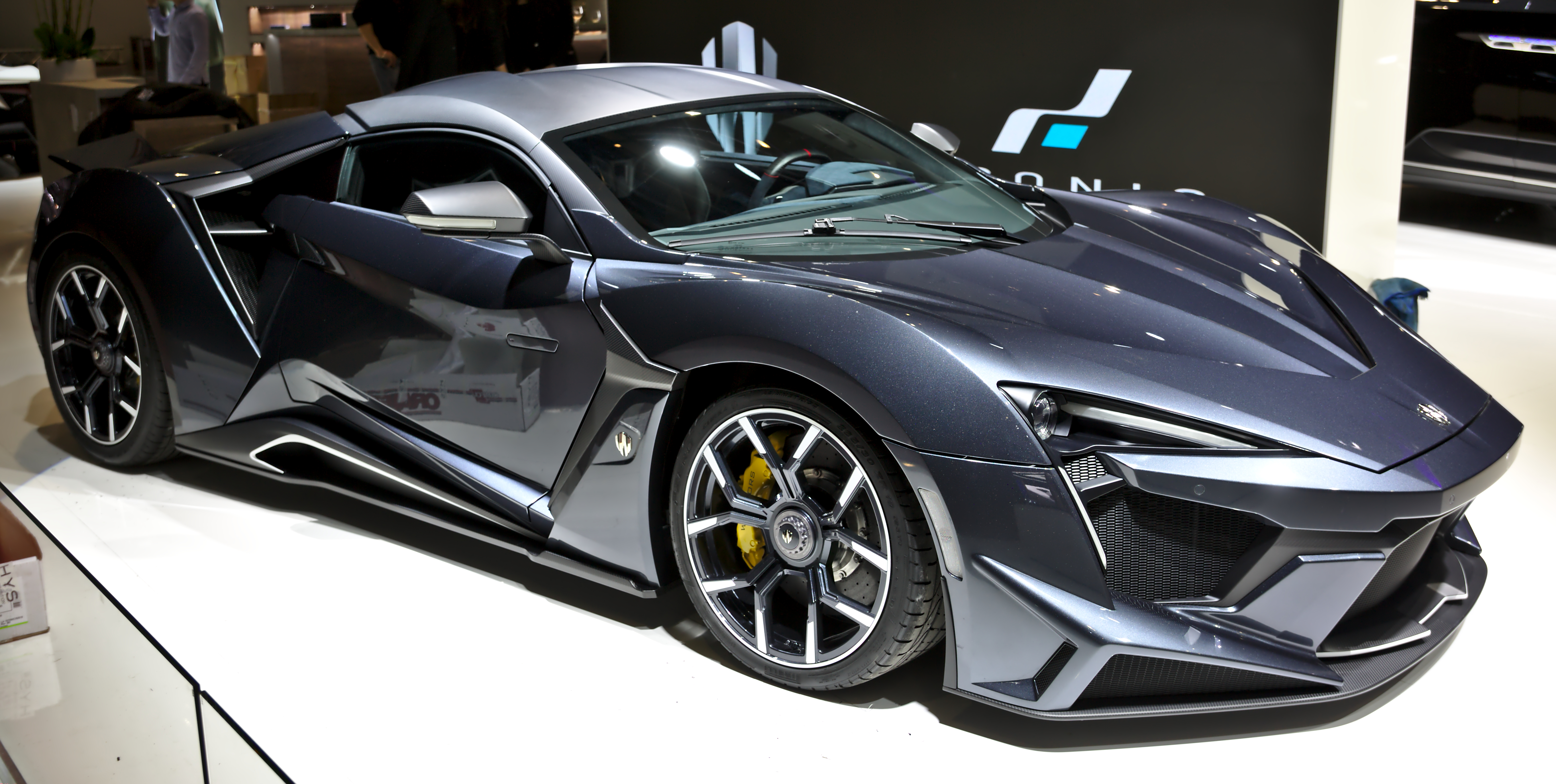 Fenyr Supersport at Geneva Motorshow 2018